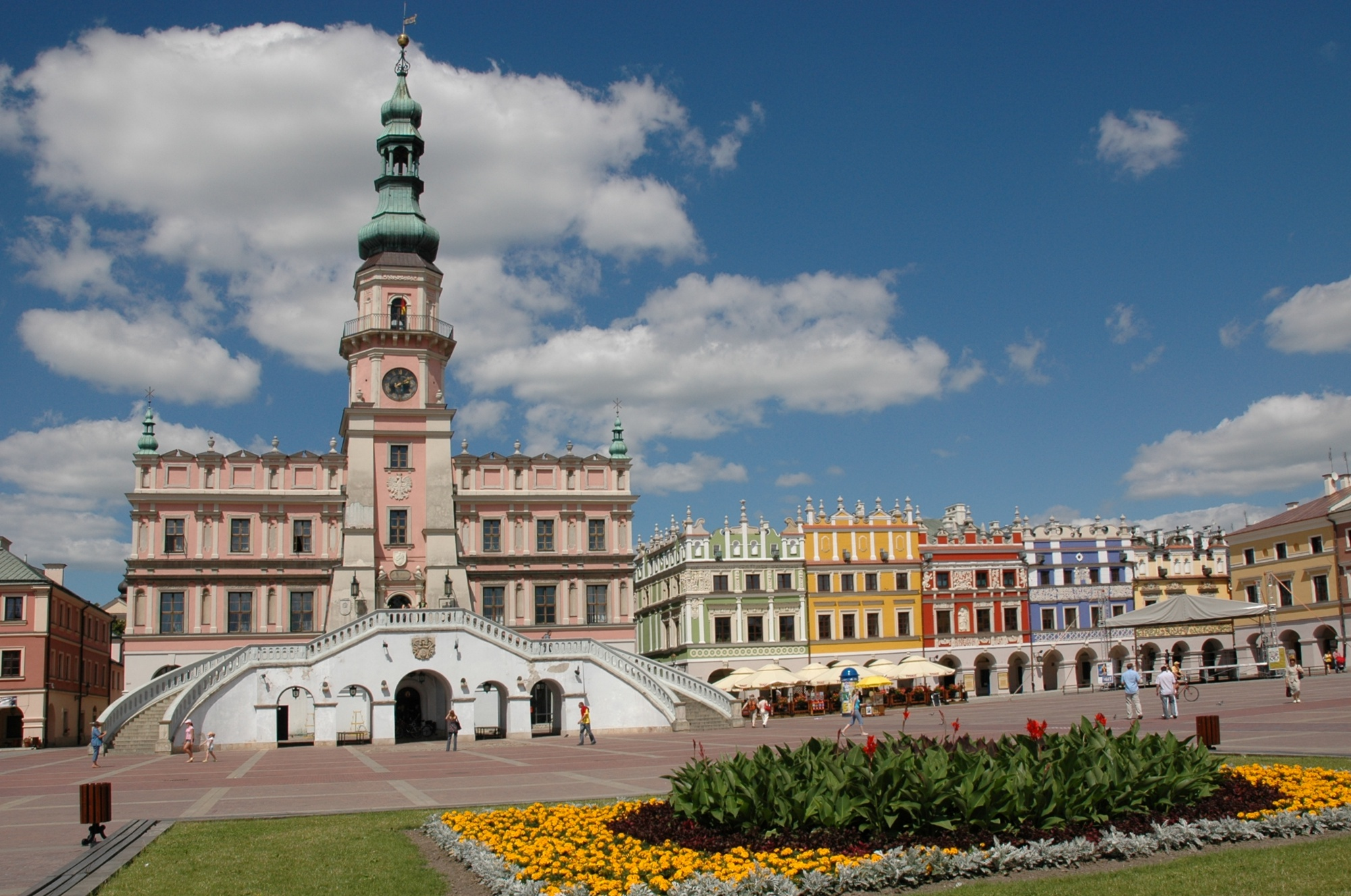 Zamość - City Hall and Main Square